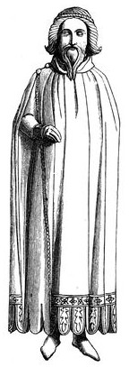 Edward of Woodstock